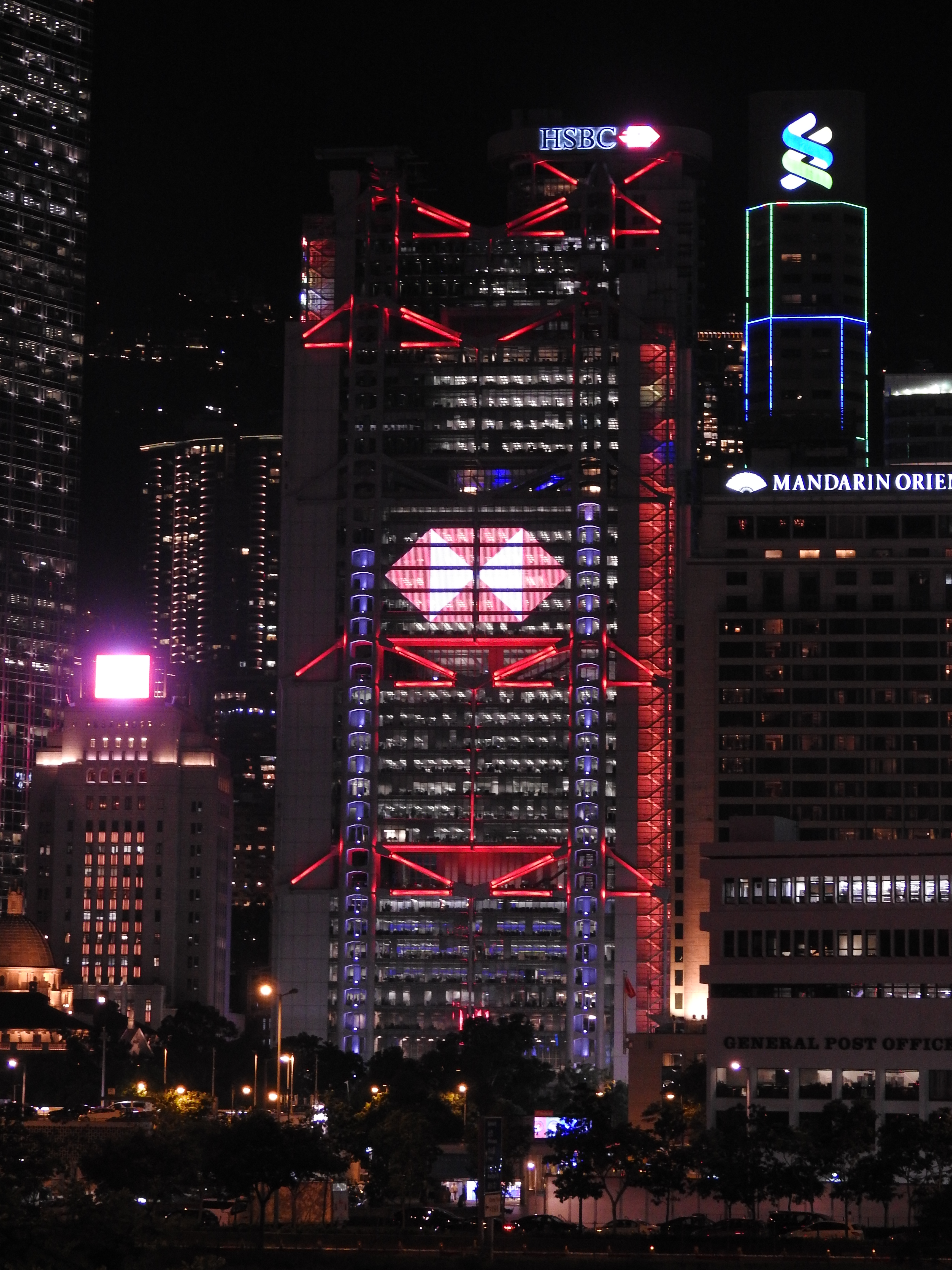 HSBC Hong Kong Building at night.